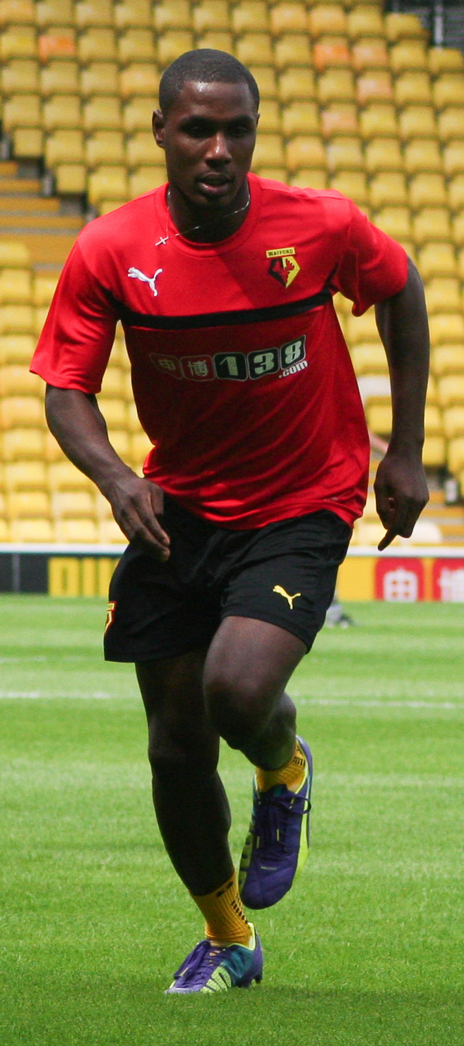 Odion Ighalo during warm-up with Watford FC